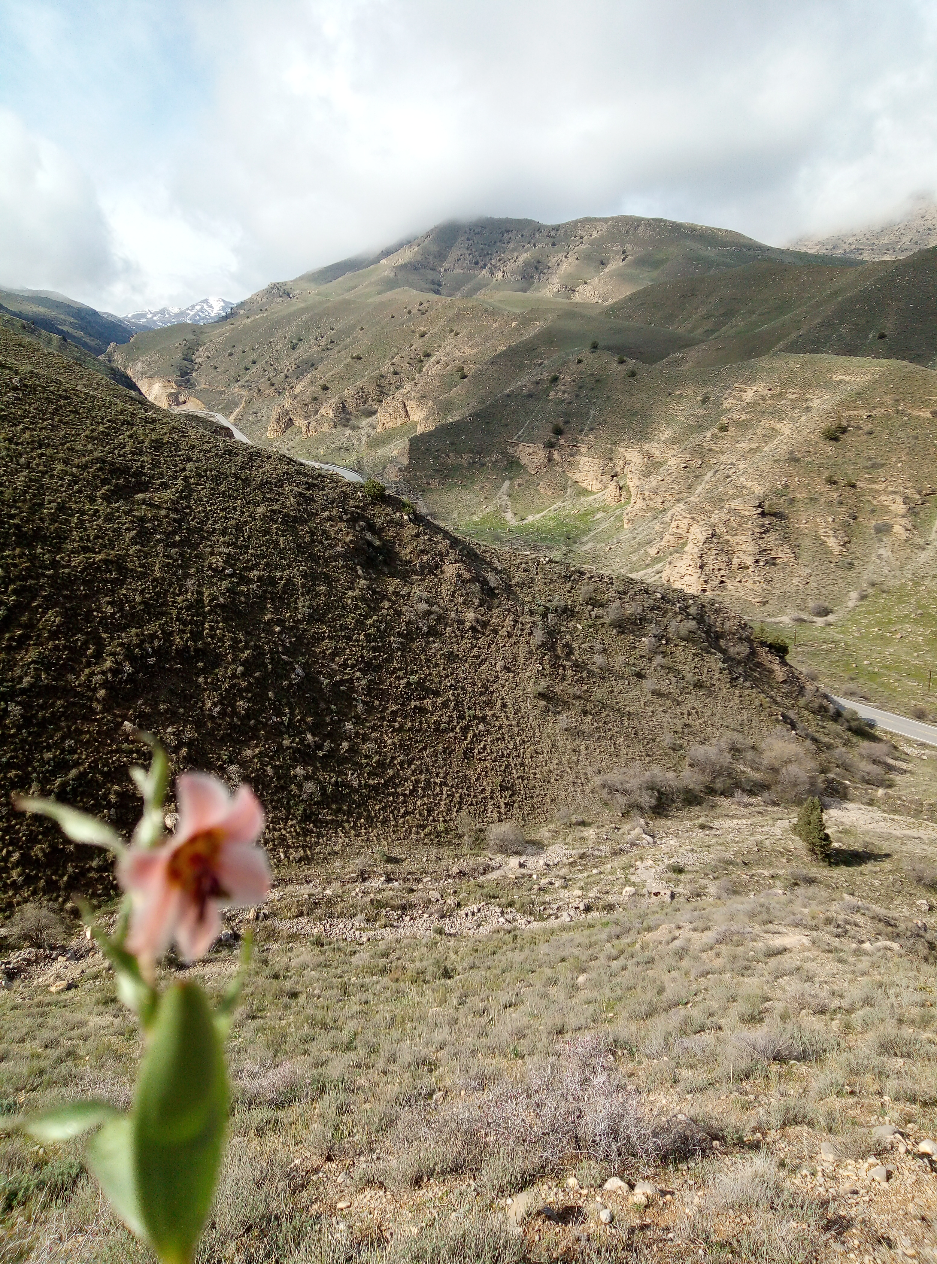 Dargaz nature